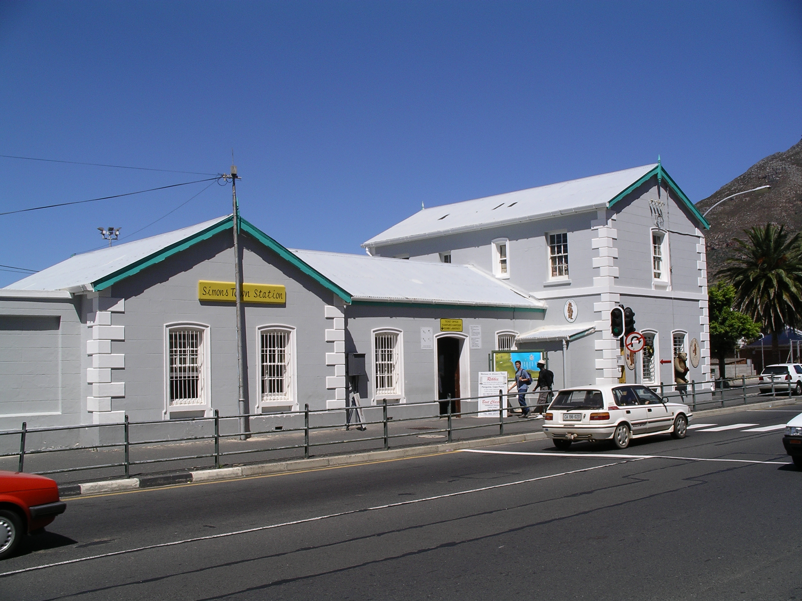 Railway station Simons Town in South Africa